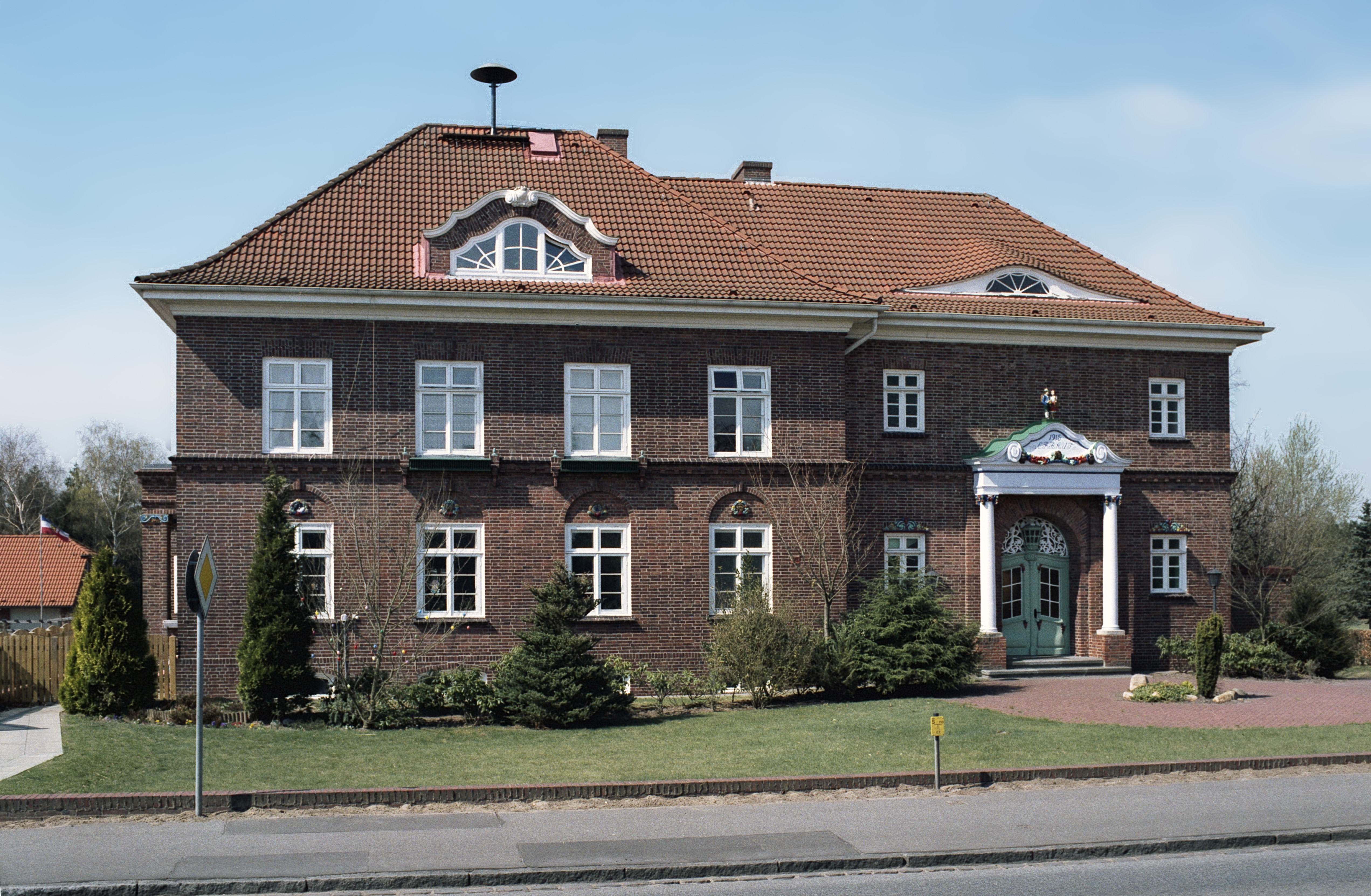 Groß Nordende (Germany) – Dorfstraße 93 – Former schoolhouse from 1915 – photo 1997